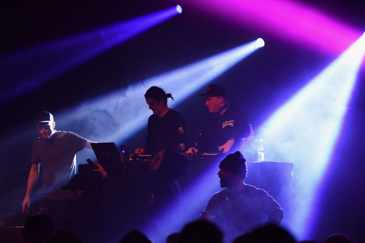 JCY performing live at X Games, Hafjell